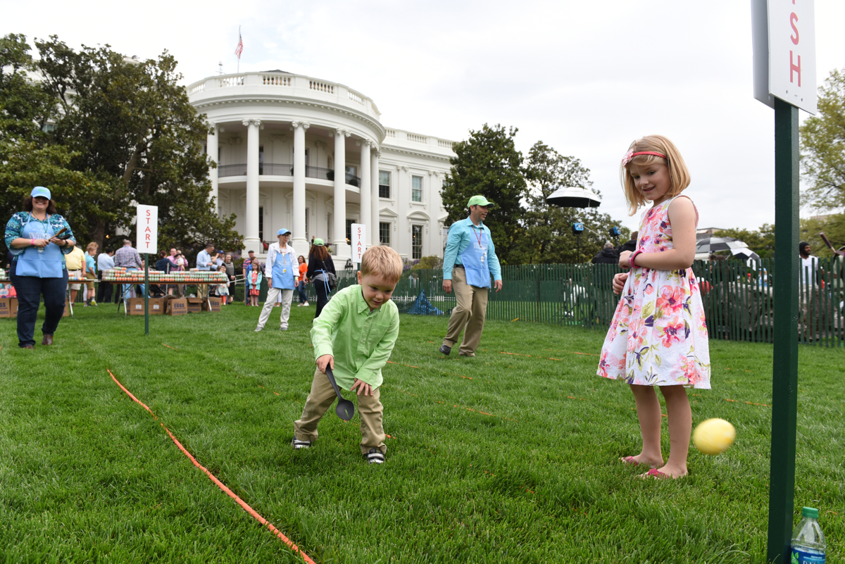 The White House Easter Egg Roll, Monday, April 17, 2017. (Official White House Photo by Joyce N. Boghosian).